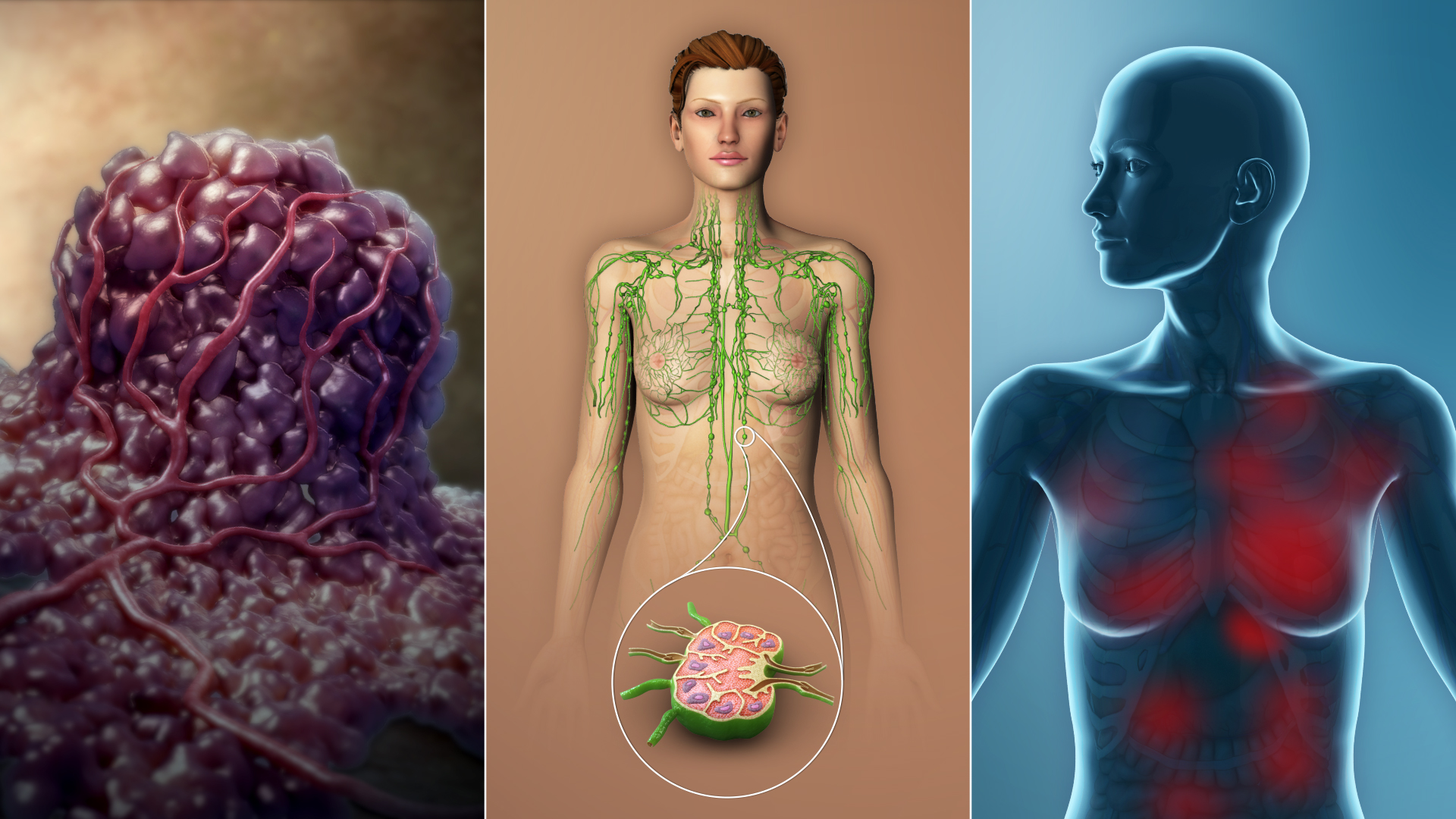 3D medical illustration showing the TNM (tumor, node, metastasis) stages in breast cancer